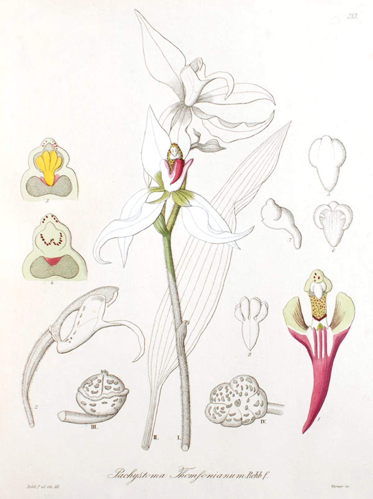 Illustration of Ancistrochilus thomsonianus (as syn.Pachystoma thomsonianum)